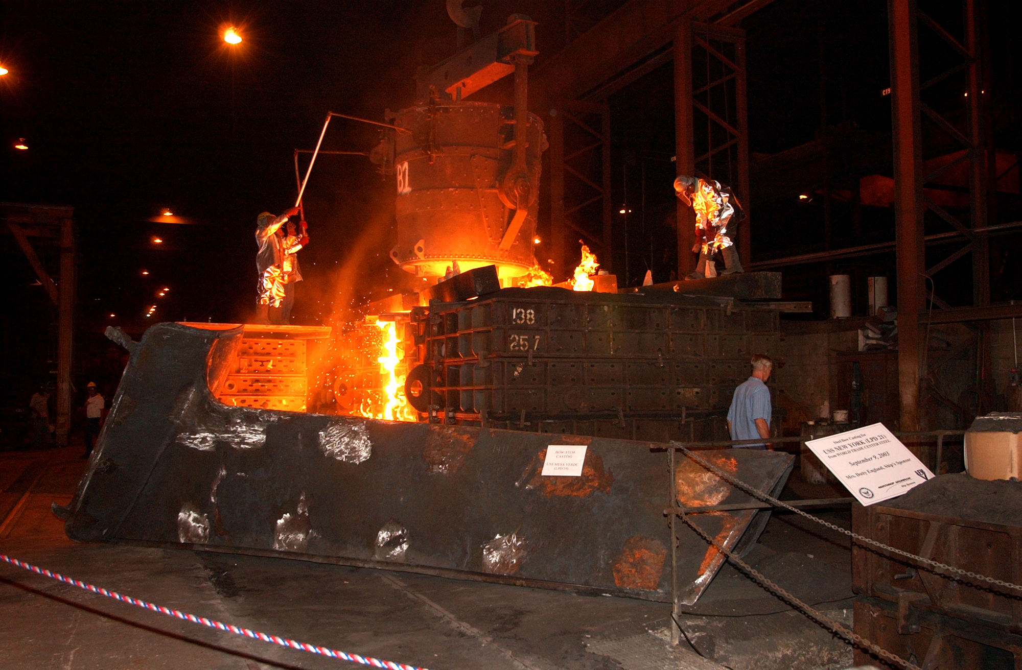 Amite, La. (Sept. 9, 2003) — Workers pour molten steel into a mold to form the bow stem of the Amphibious Transport Dock ship USS New York (LPD-21). In the foreground a previously cast bow stem can be seen as an example of what the New York bow stem will resemble. About 24 tons of steel was salvaged from the World Trade Center, which was destroyed in the terrorist attacks of Sept. 11, 2001. Approximately 10-percent of the steel was lost when the foundry superheated the 48,780 pounds of steel to 2,850 degrees Fahrenheit.